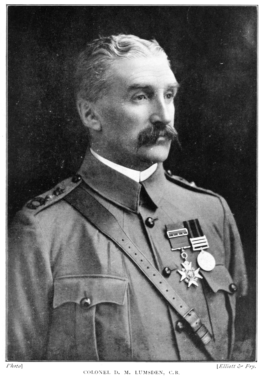 Colonel Dugald Mactavish Lumsden